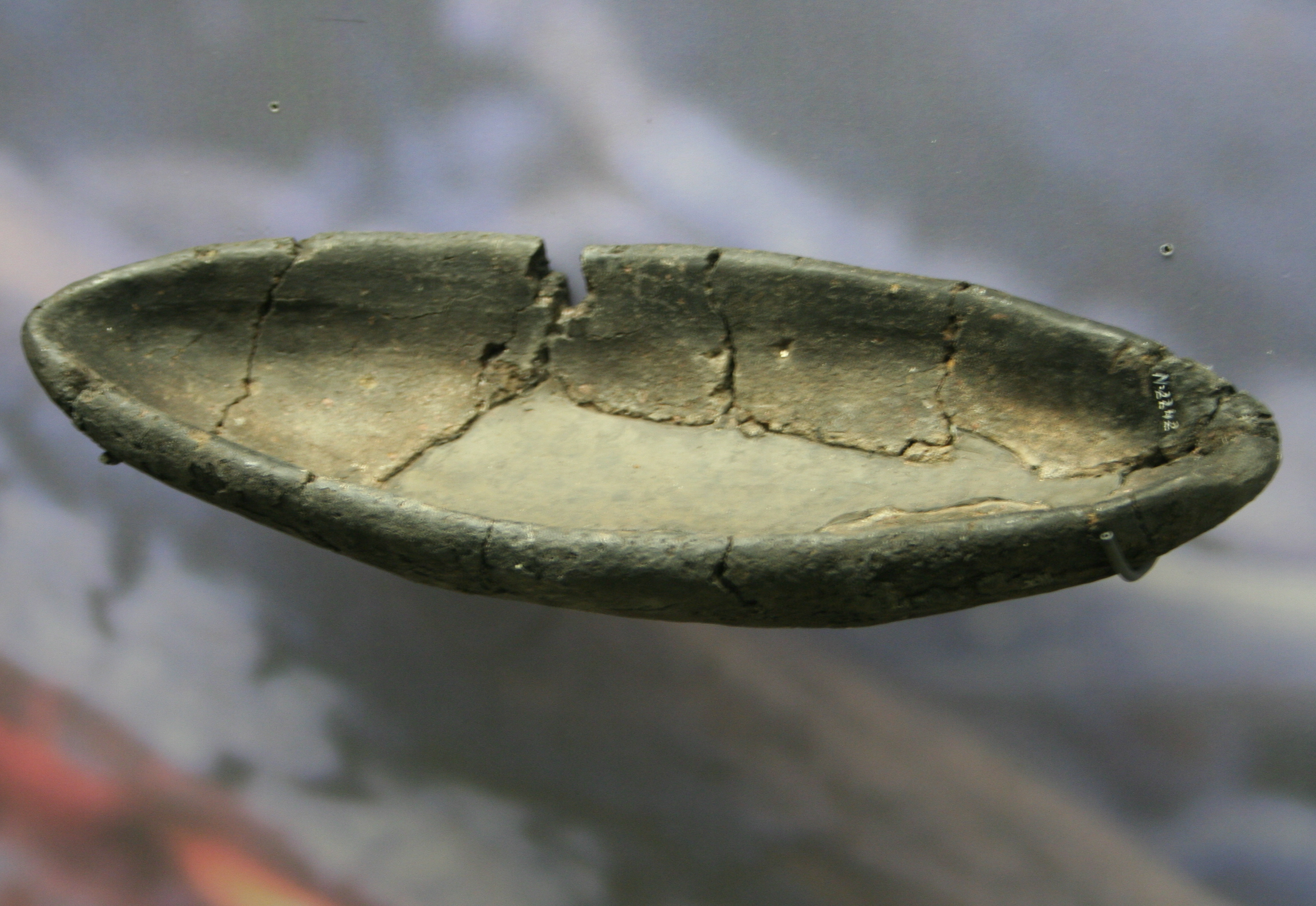 Archaeological state museum Schleswig-Holstein, Gottorf Castle